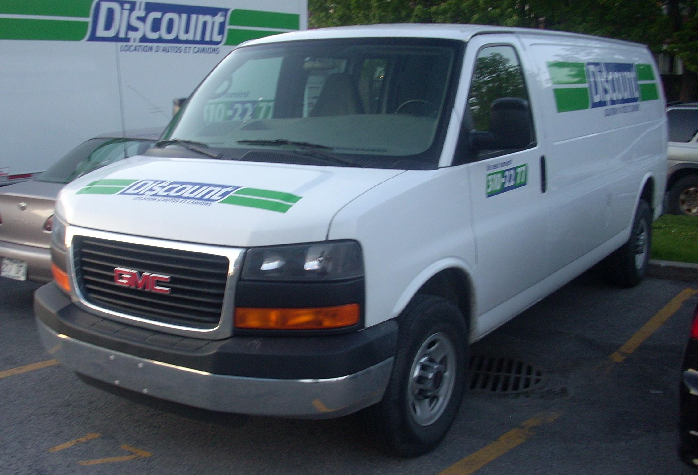 2003-present GMC Savana photographed in Montreal, Quebec, Canada.